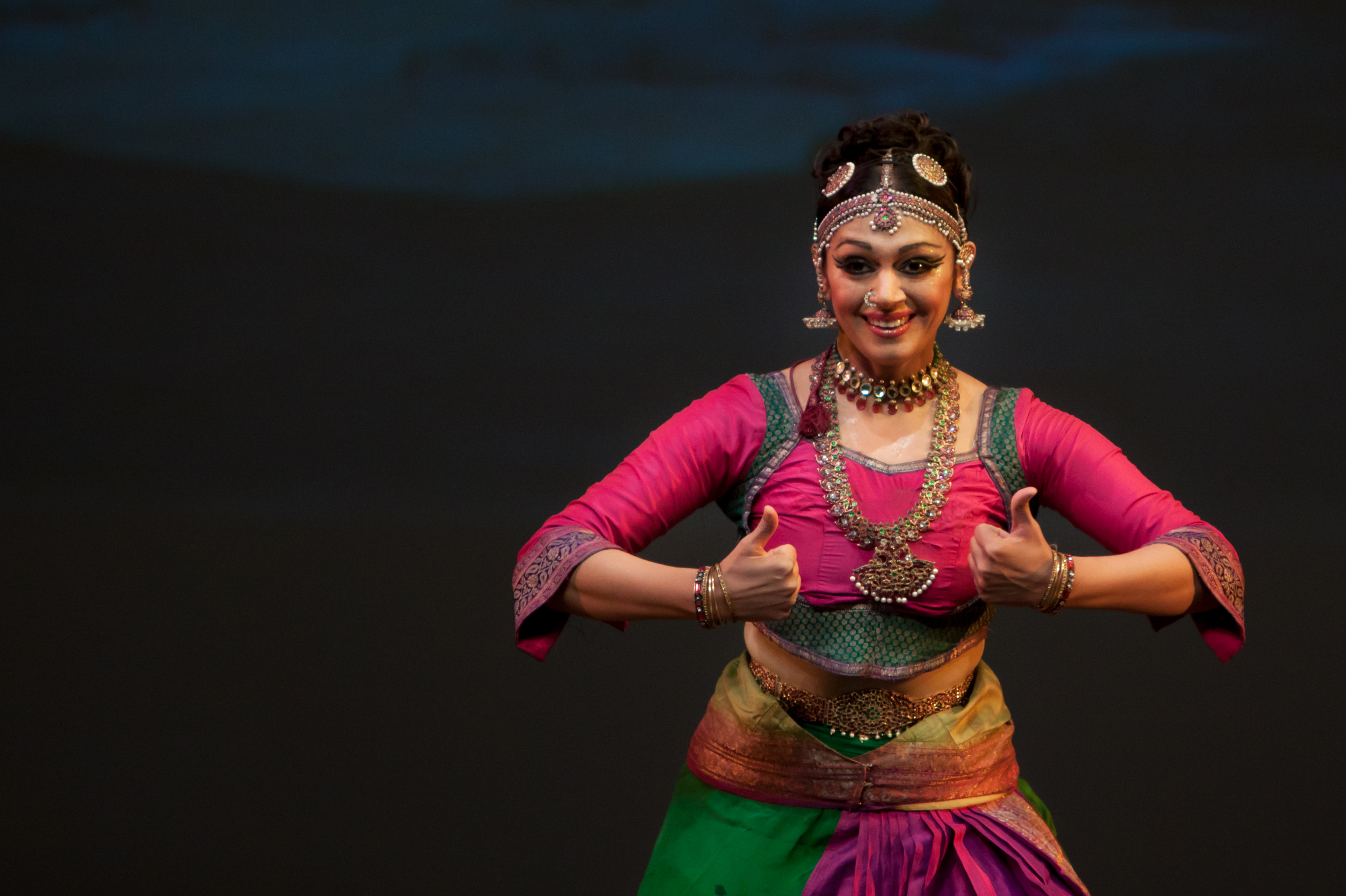 This media file is uploaded with Malayalam loves Wikimedia event - 2.